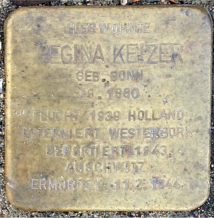 Stolperstein - Stumbling Stone in Nettetal, NRW, Germany Regina Keizer